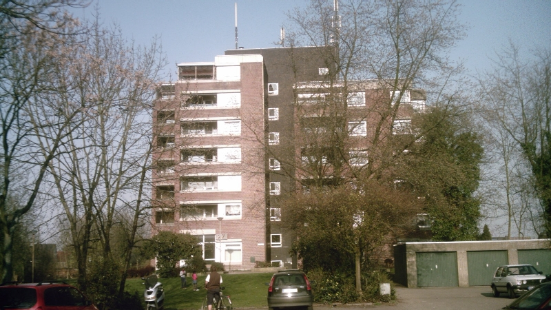 High building in Hamm, Viersen, Germany